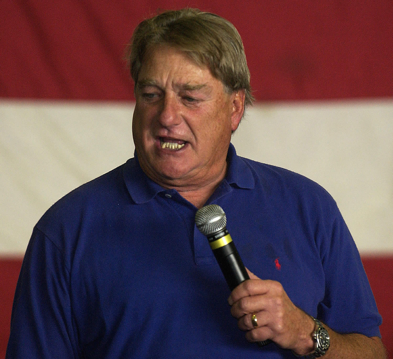 American comedian and actor Blake Clark during an United States military show.